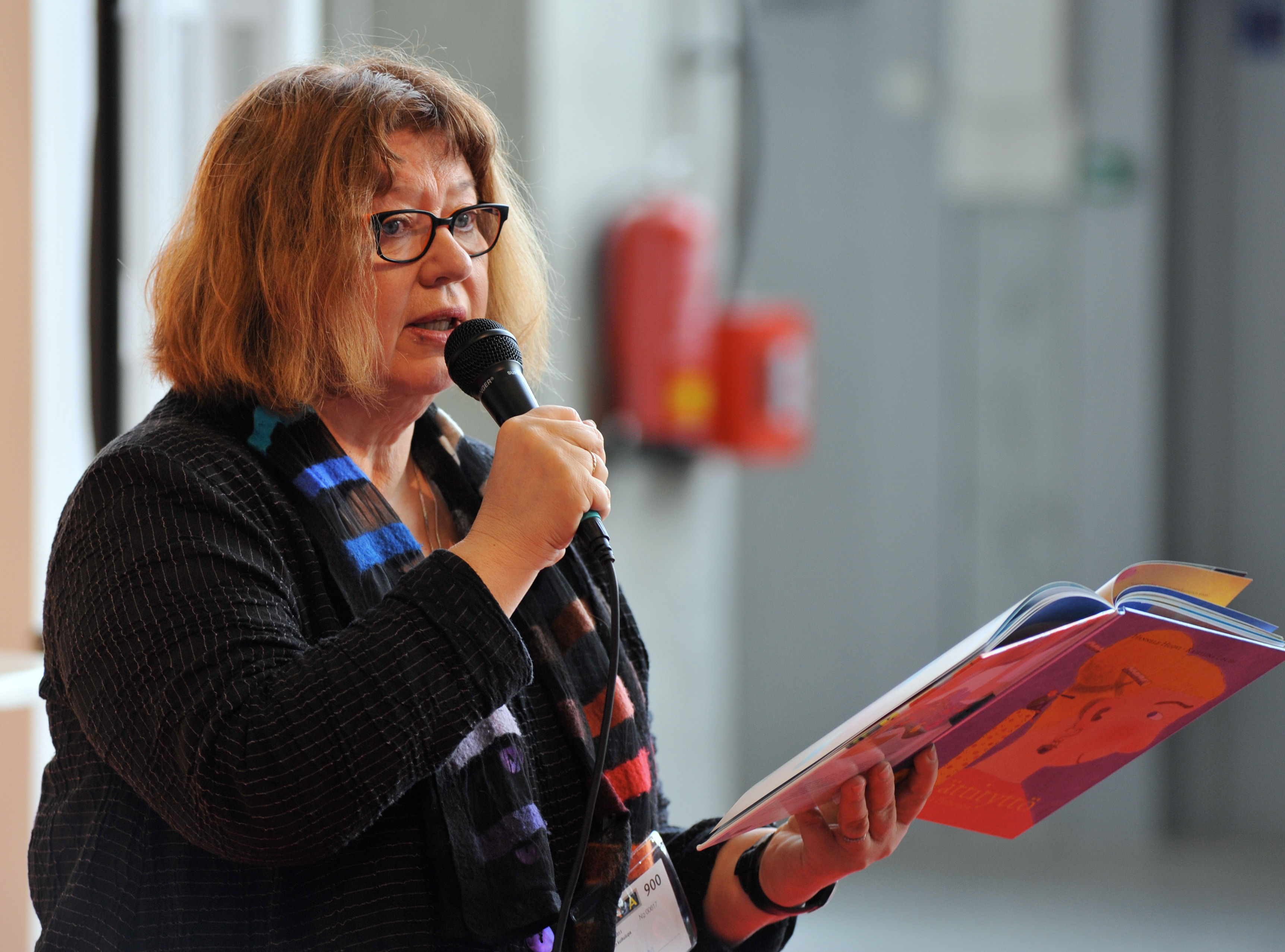 Hannele Huovi, Finnish writer, reading her book Jättityttö ja Pirhonen at Helsinki Book Fair 2011.